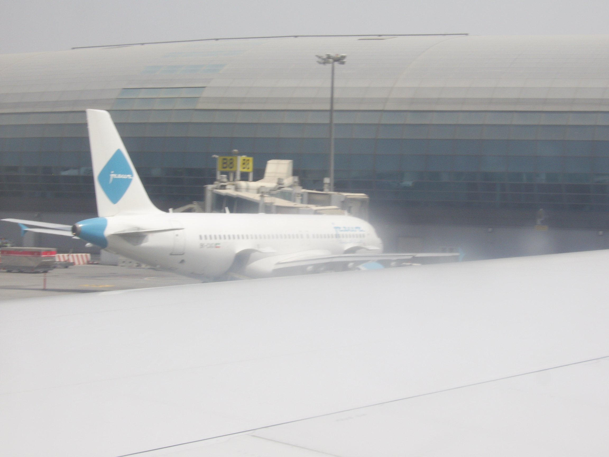 Jazeera Airways at Dubai International Airport